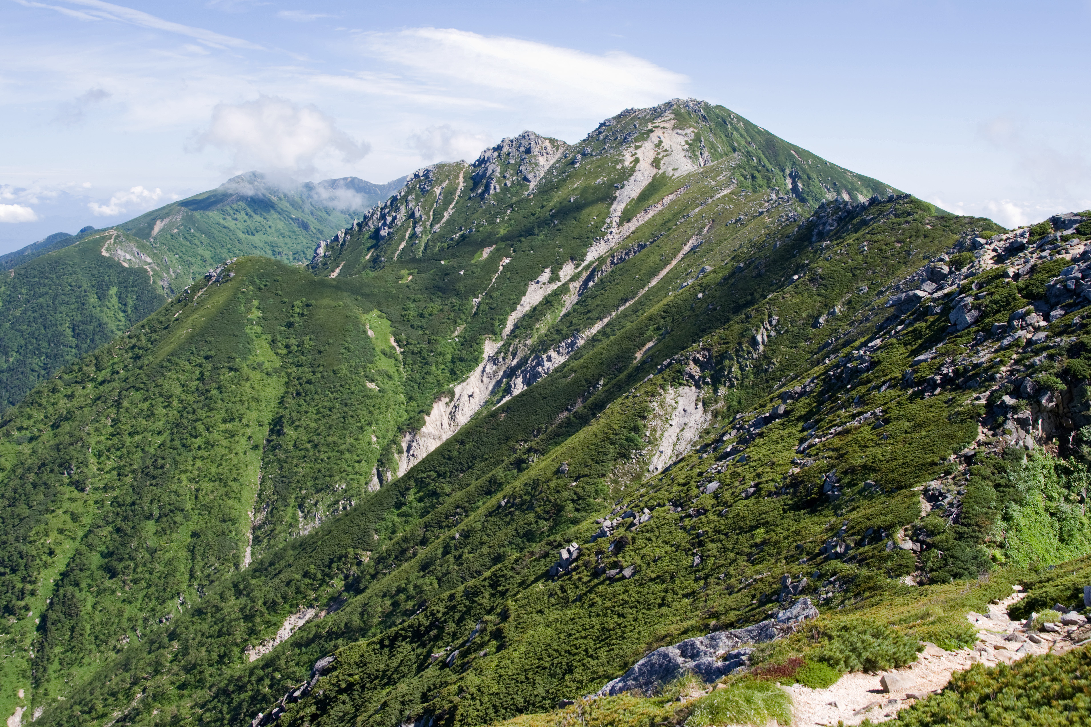 The SSW side of Mt.Utsugidake (center) in Mts.Kiso, Nagano Pref., Japan.